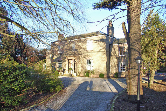 Seaton House, Seaton, East Riding of Yorkshire, England.Seaton House is situated on the corner of Breamer Lane and Main Street. Pevsner says "..early c19, of white brick with hipped slate roof. A central three-bay block with one-bay wings and a Doric porch..".